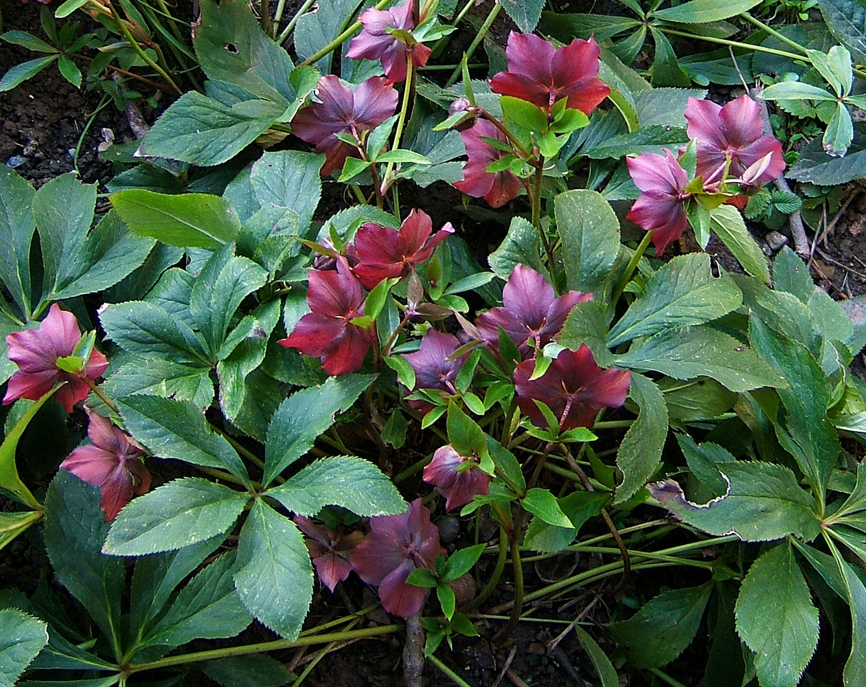 Plants growing in a half shady place at 240 m in Rems Valley, a warm viniculture region in Baden_Württemberg, Germany.